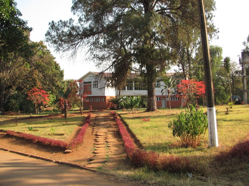 Instituto de Investigacão Agronomica, the research station in Huambo.